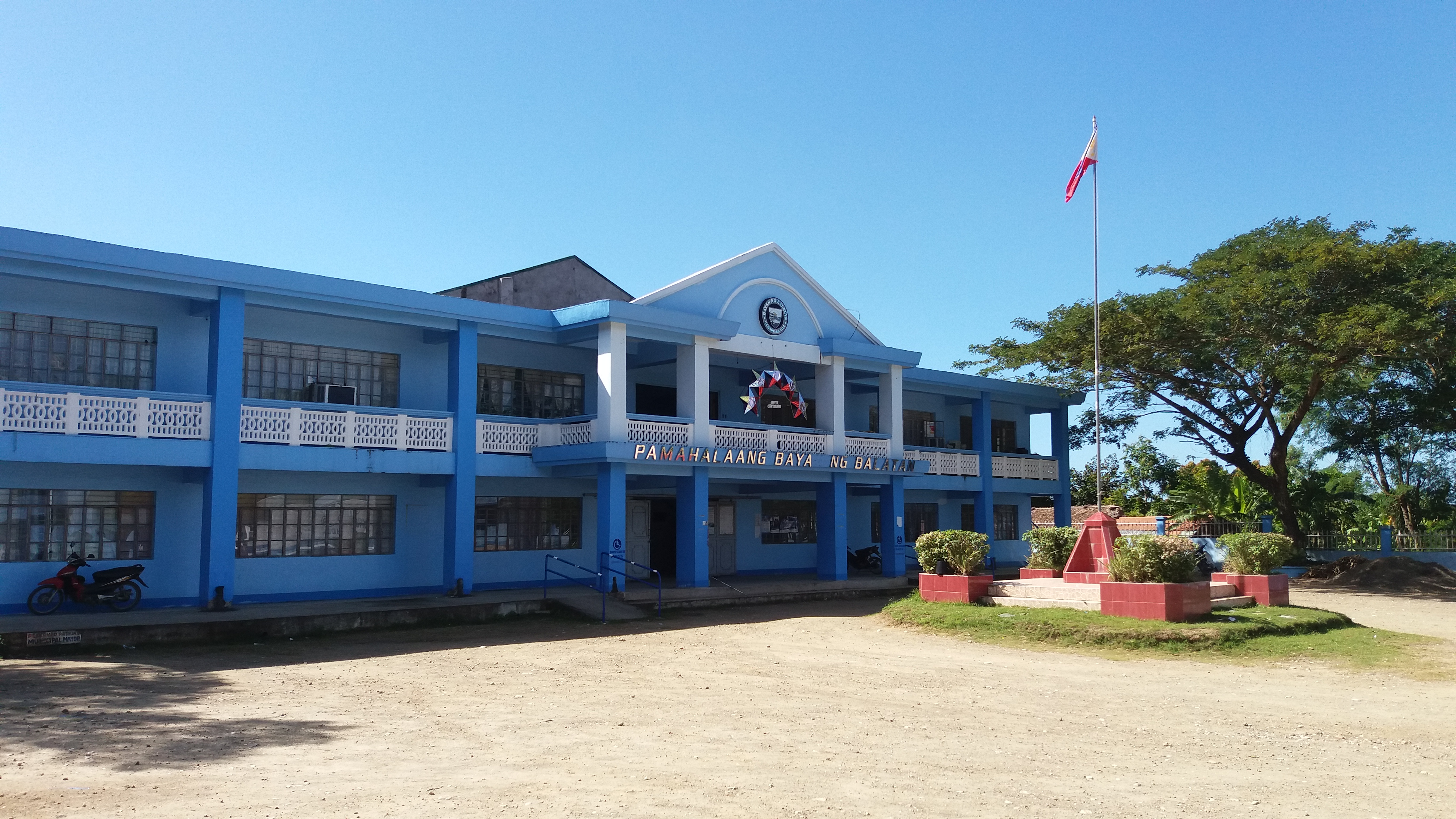 The main government office of Balatan Camarines Sur